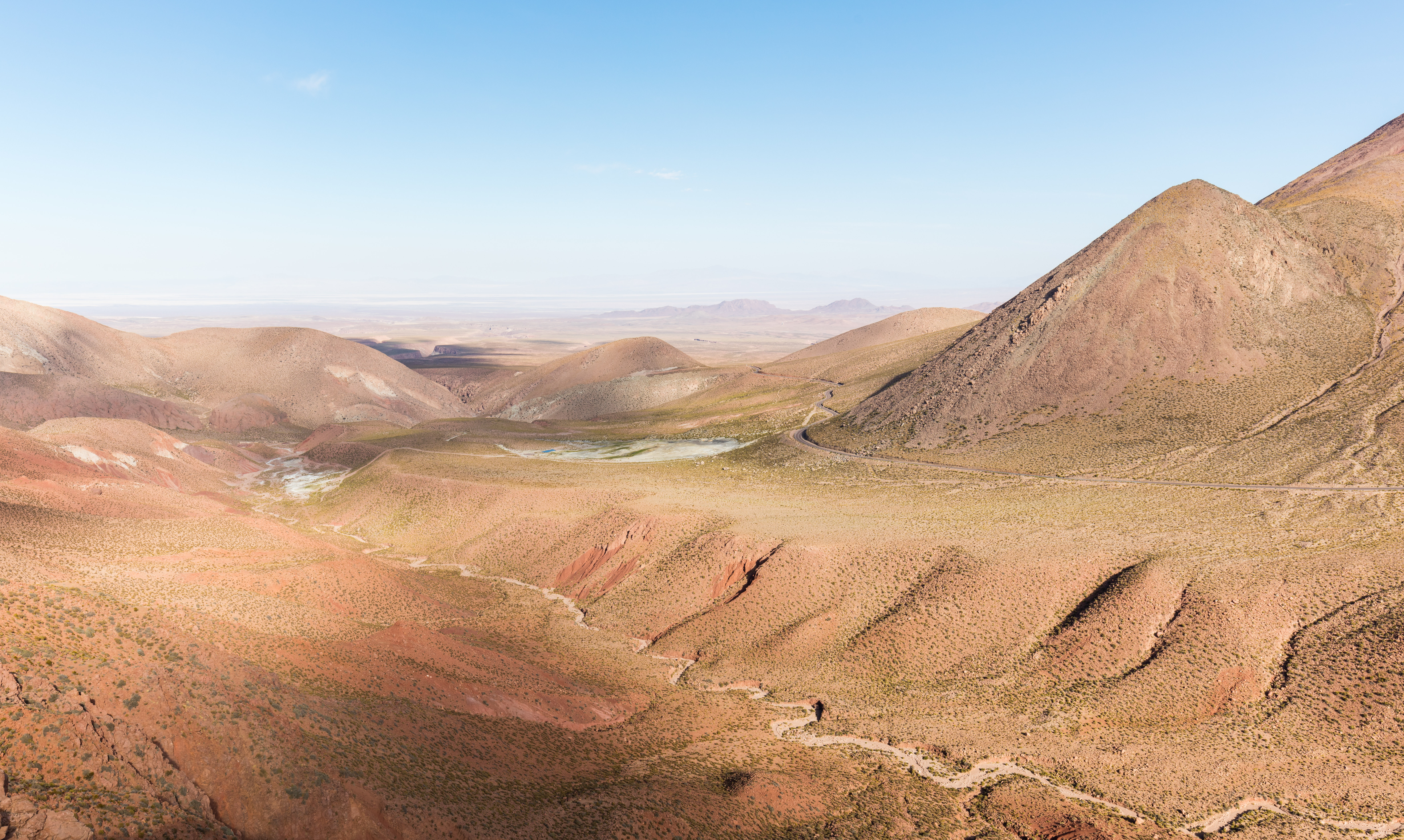 Typical landscape of the Atacama Desert, the most arid place in the world, precisely 50 kilometres (31 mi) northeast of Calama, Chile.